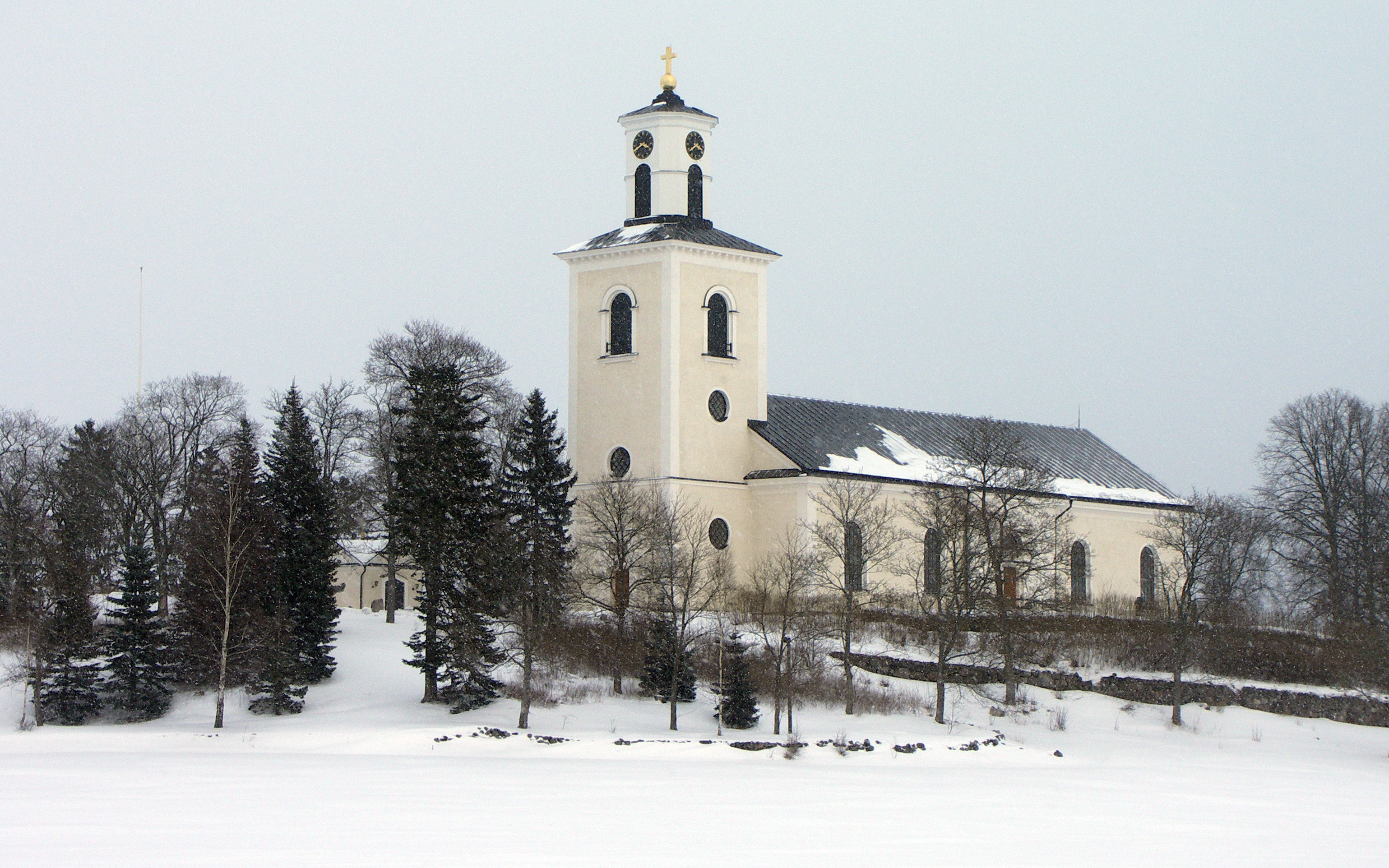 Kuddby, Vikbolandet, Sweden: the parish church and its surroundings.